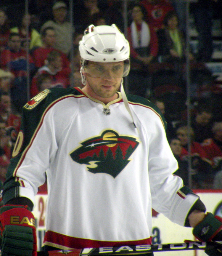 Minnesota Wild forward Marian Gaborik during warm-up prior to a National Hockey League game against the Calgary Flames in Calgary.